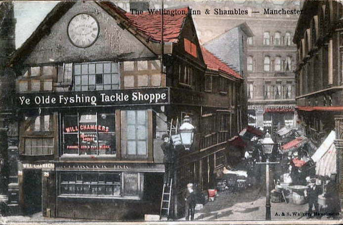 Old Shambles in its original location. The postcard was sent in 1904 so the photograph was taken sometime before that.